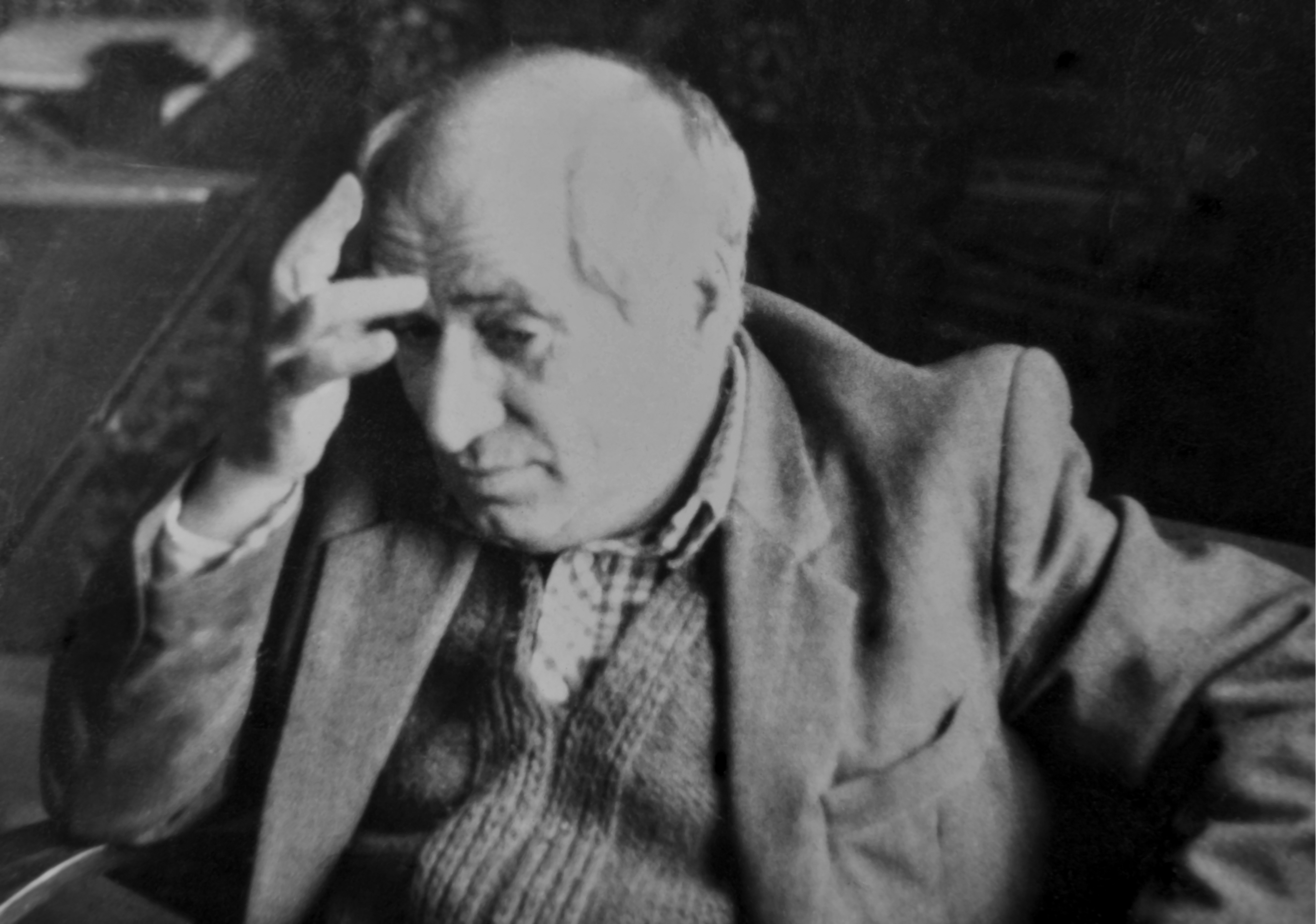 Gigla Janashia's Portrait